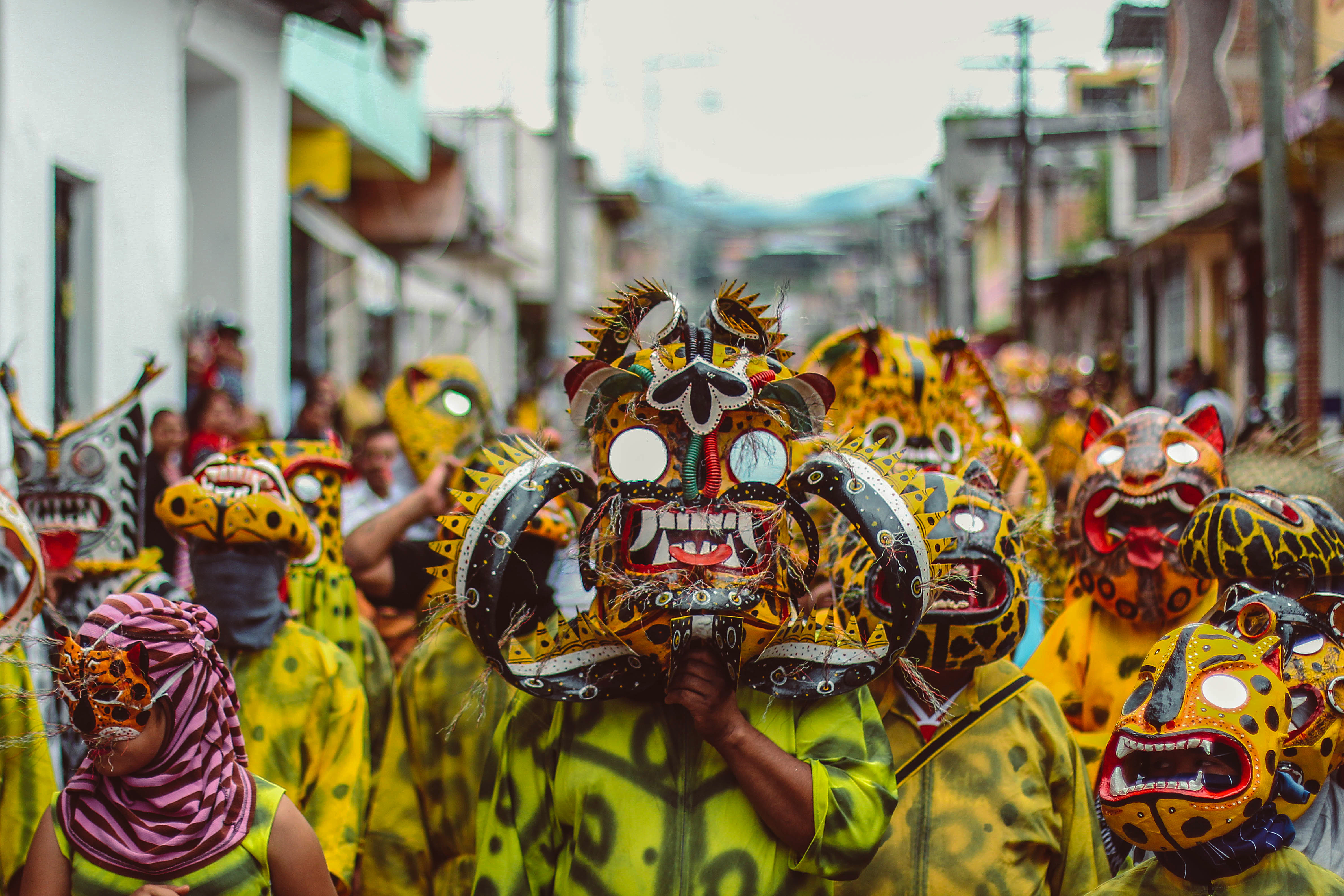 Every corner of Guerrero tells us a story, Chilapa is proud to show every August 15 the pride of being Warriors, among colors, dances and mezcal announces the arrival of the Tigers. This photo has been taken in the country: Mexico